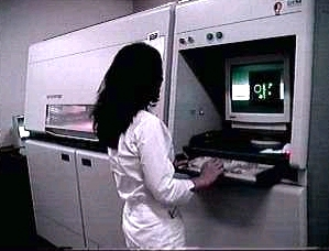 DTM SLS-based rapid prototyping machine, Brazil. Author: Renato M.E. Sabbatini